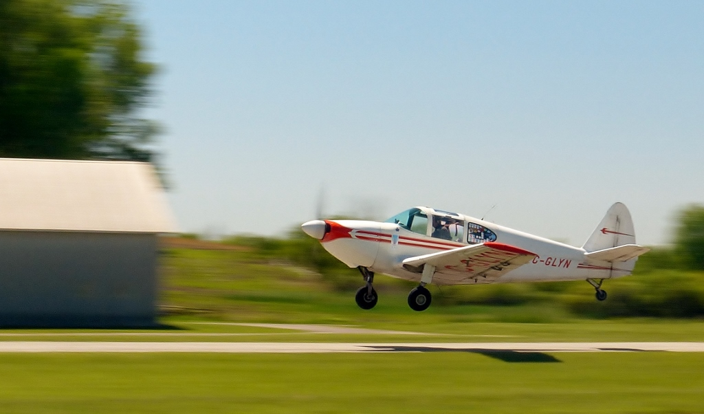 Fern Villeneuve at the controls of his 1948 Globe Swift on June 7, 2017. Takeoff from Runway 05, Guelph Airpark, Guelph, Ontario, Canada